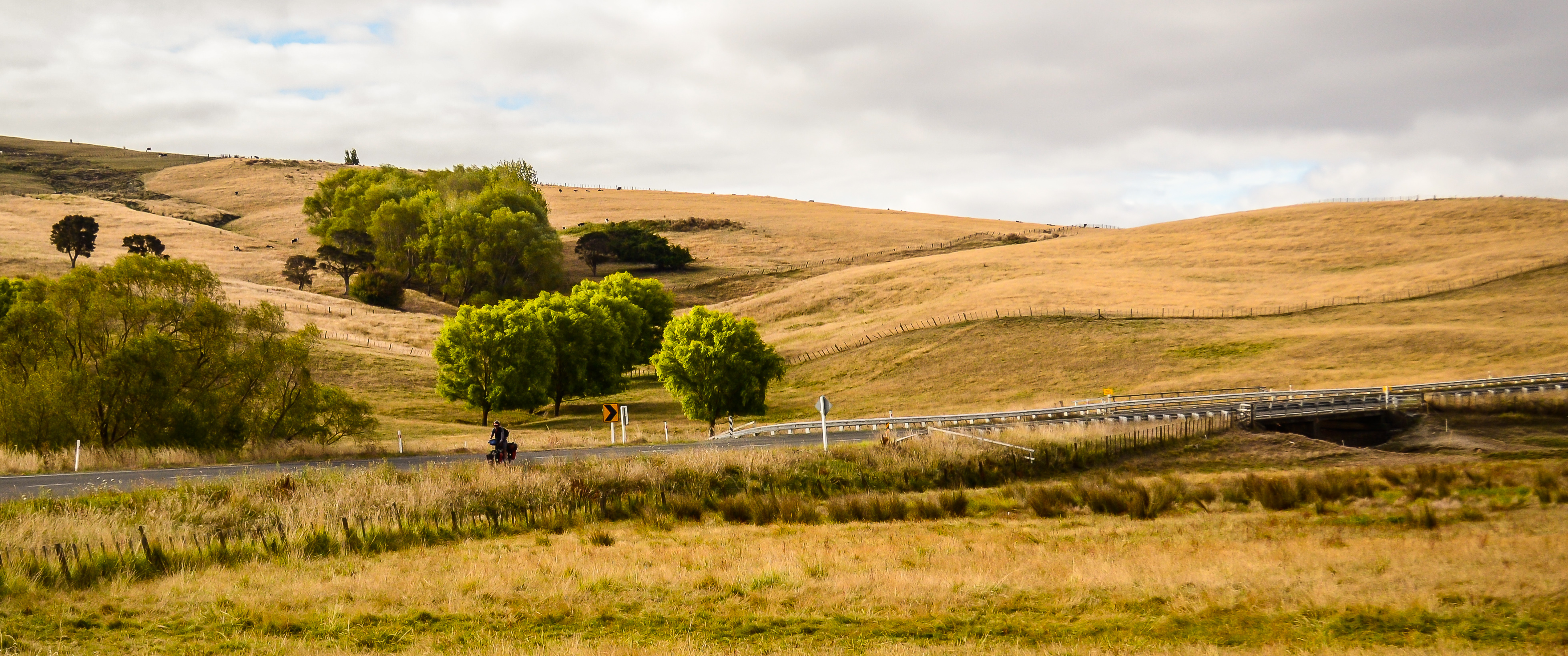 Cycling Route 52 North Island New Zealand